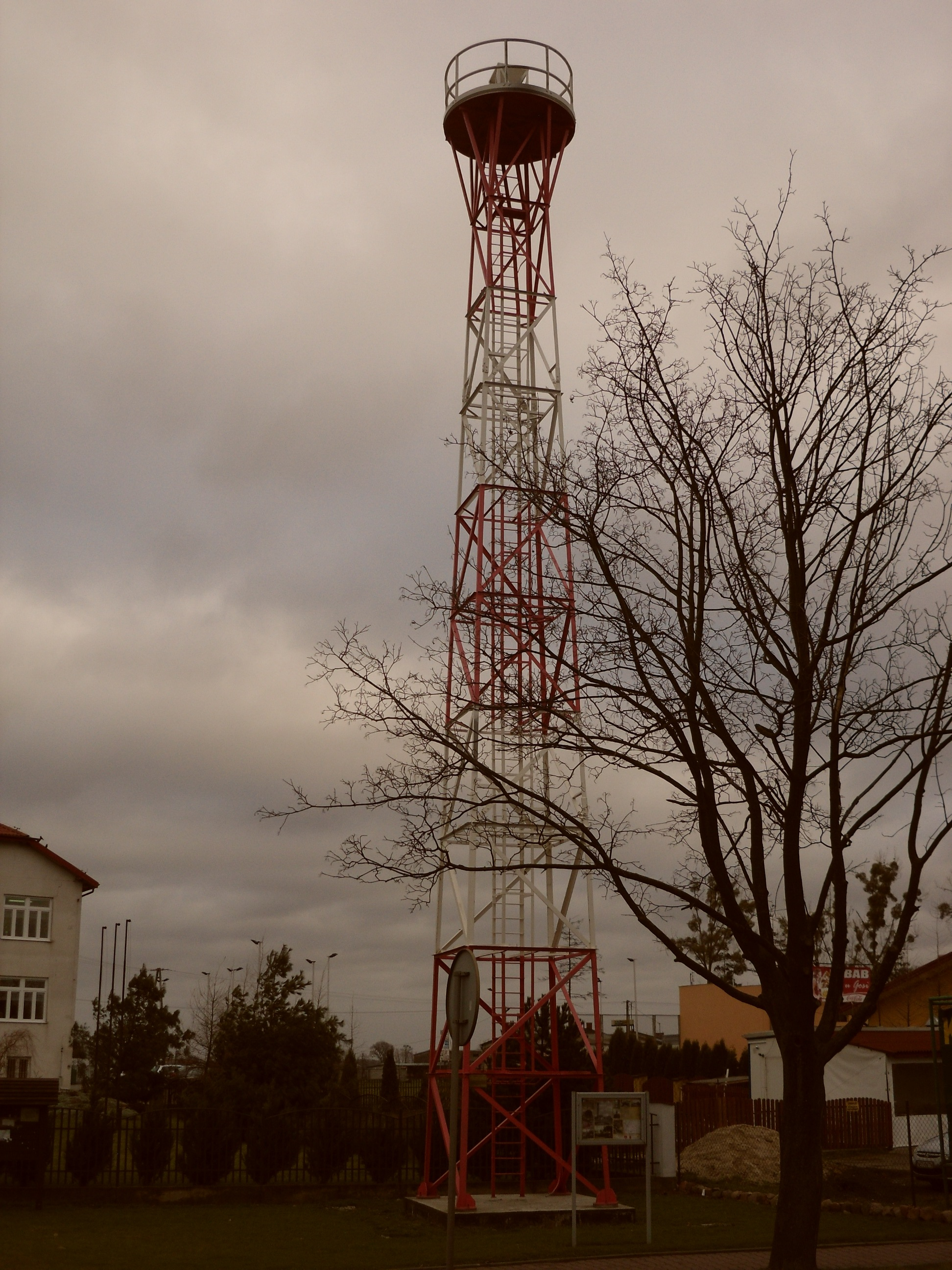 Ruszki - navigational tower